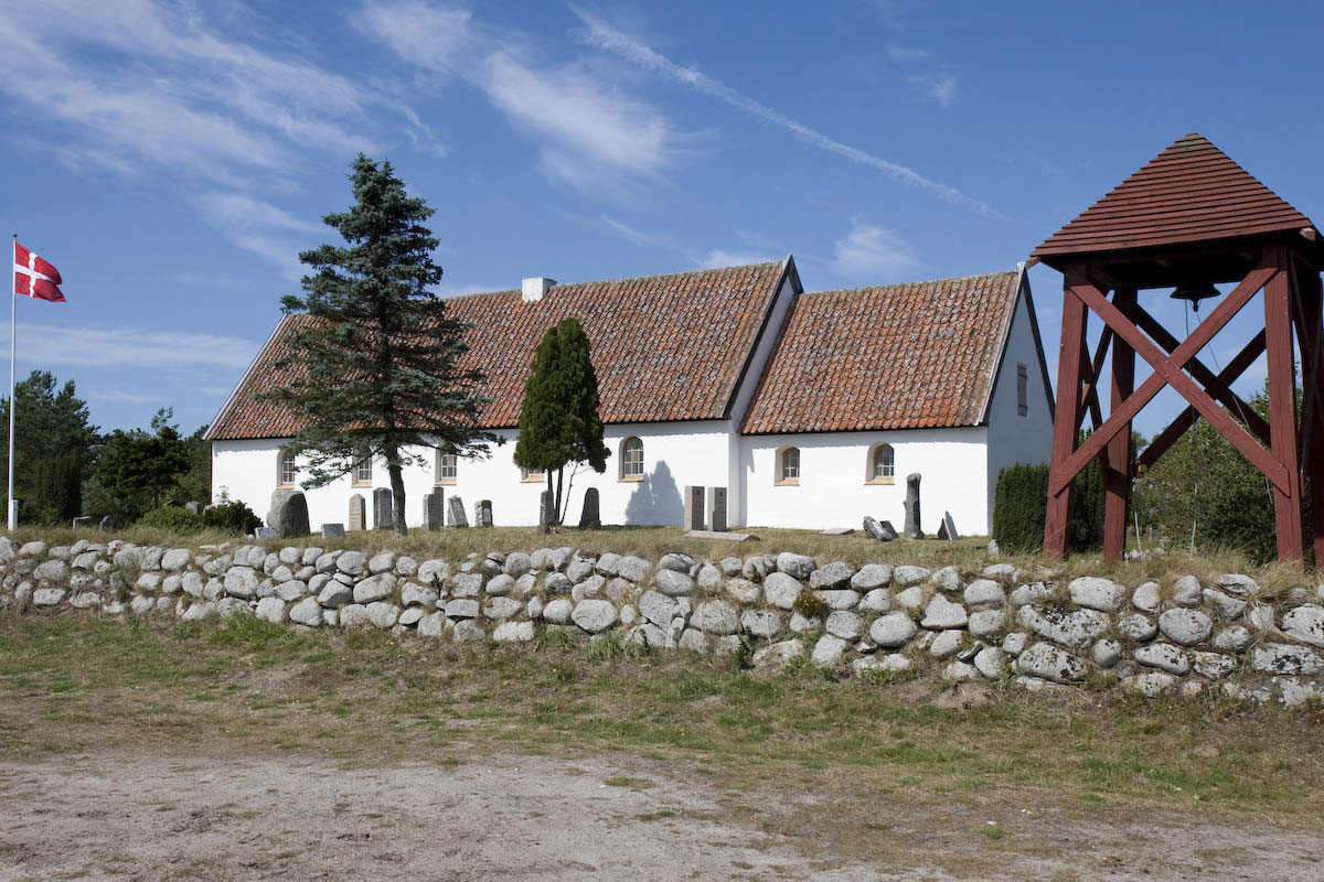 Råbjerg Kirke, church in the northern part of Denmark